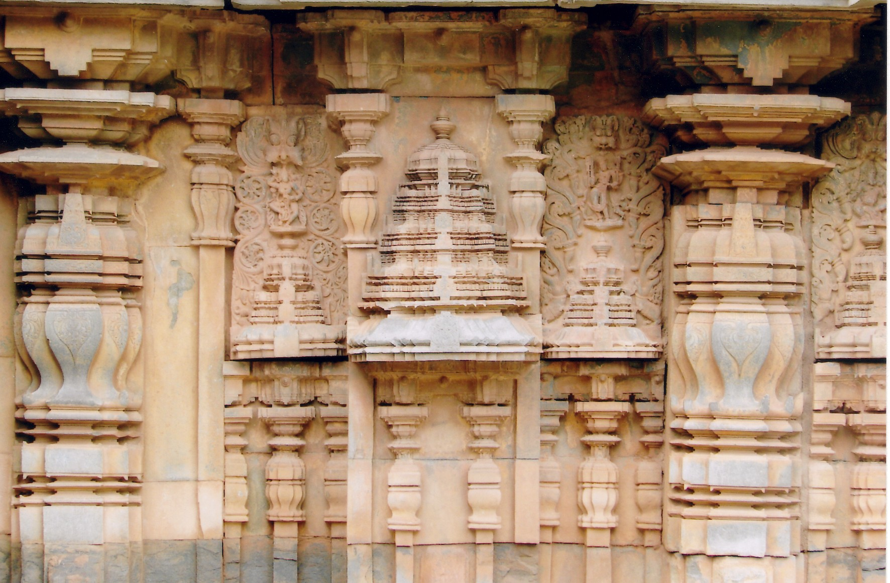 This photograph was taken by self (Dinesh Kannambadi) at the Siddhesvara temple (Also spelt Siddheshvara or Siddheshwara) at Haveri, Karnataka state, India